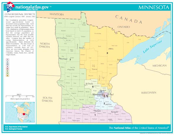 National Atlas map of Minnesota congressional districts